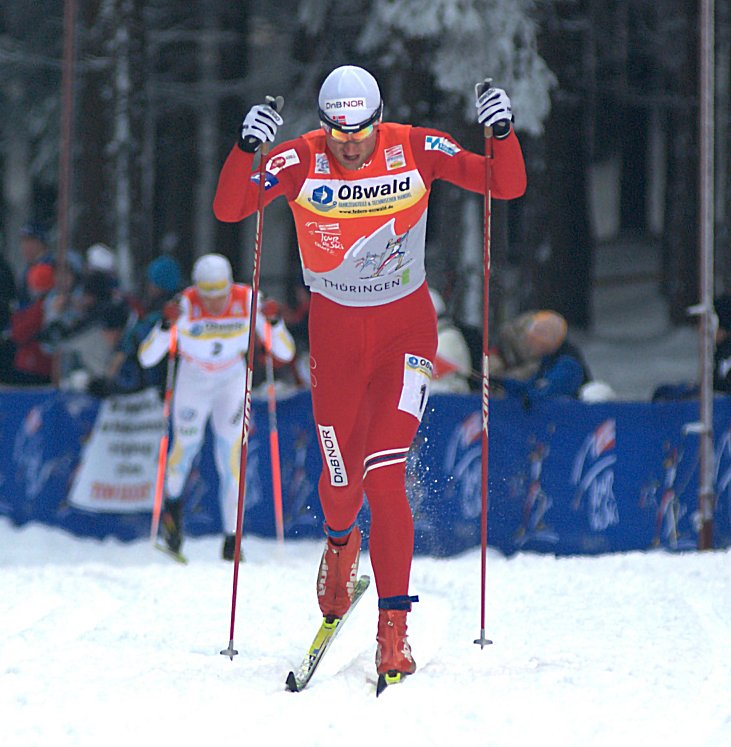 Petter Northug at the Tour de Ski 2010 in Oberhof